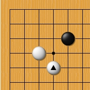 Kosumi, a nomenclature of Go,also named as a diagonal move.